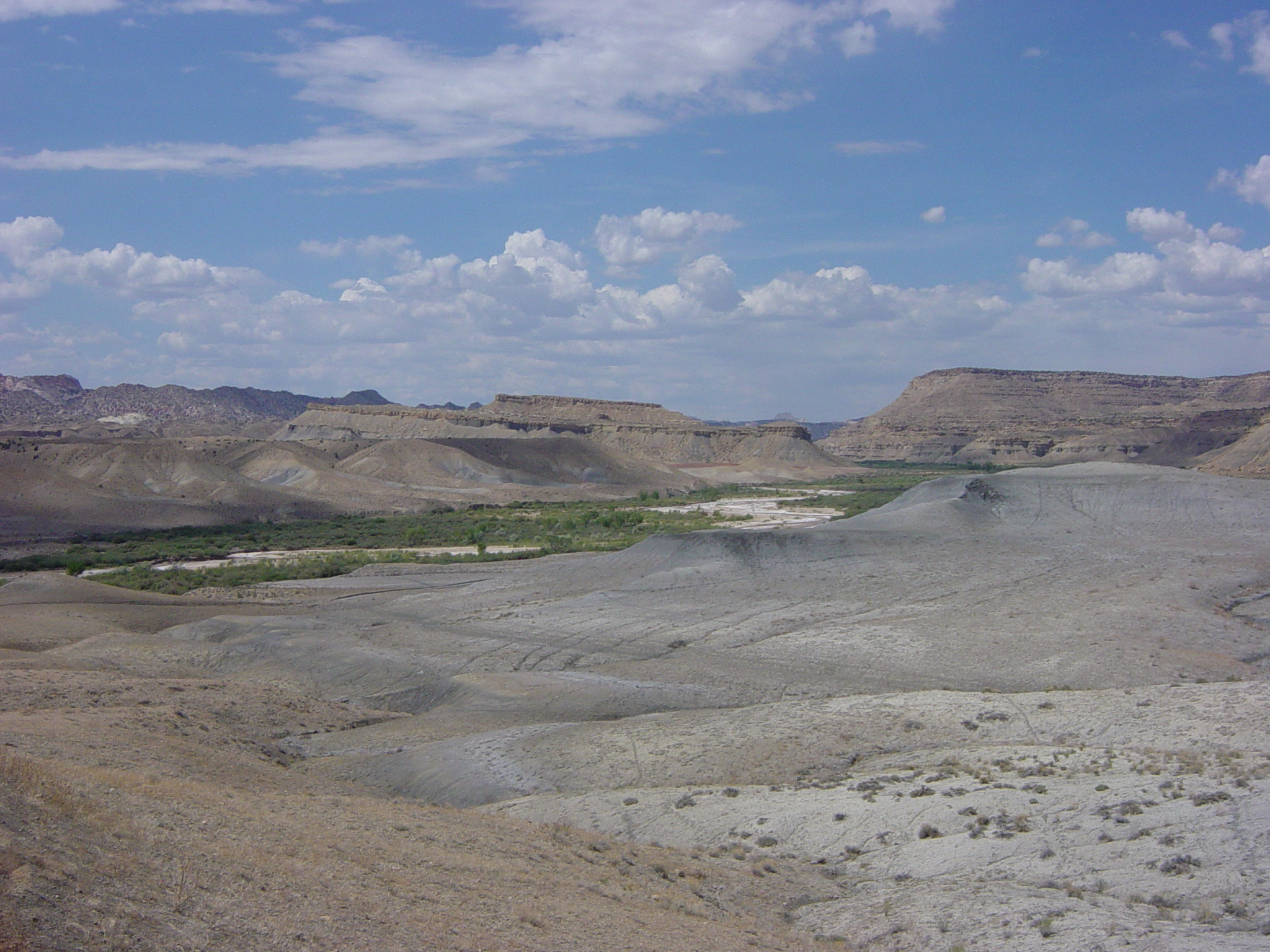 Entering Cottonwood Canyon on road 400 from the south. Image taken May 2006 by User:Leonard G.